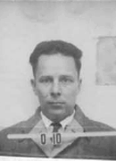 Lindsay Helmholz Los Alamos wartime security badge.